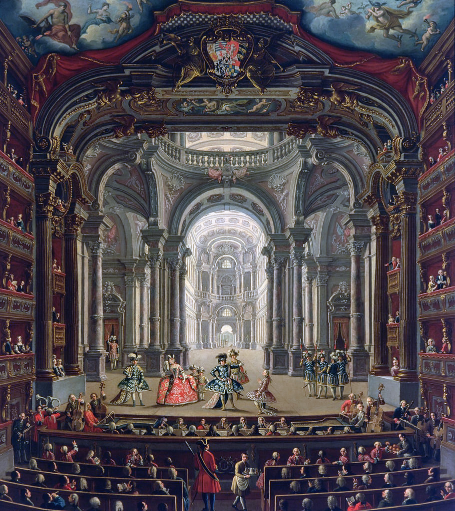 The Teatro Regio in Turin, oil on canvas